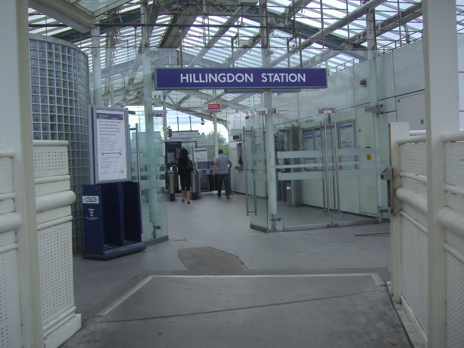 The one into the station rather than the access to it. Which counts as the main entrance is not within my power to know.